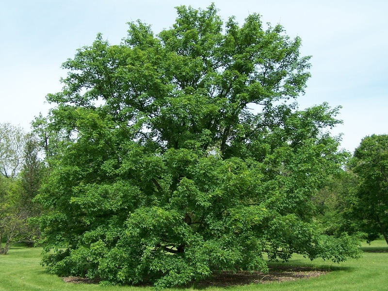 Miyabe Maple Acer miyabei. Morton Arboretum acc. 550-32*11